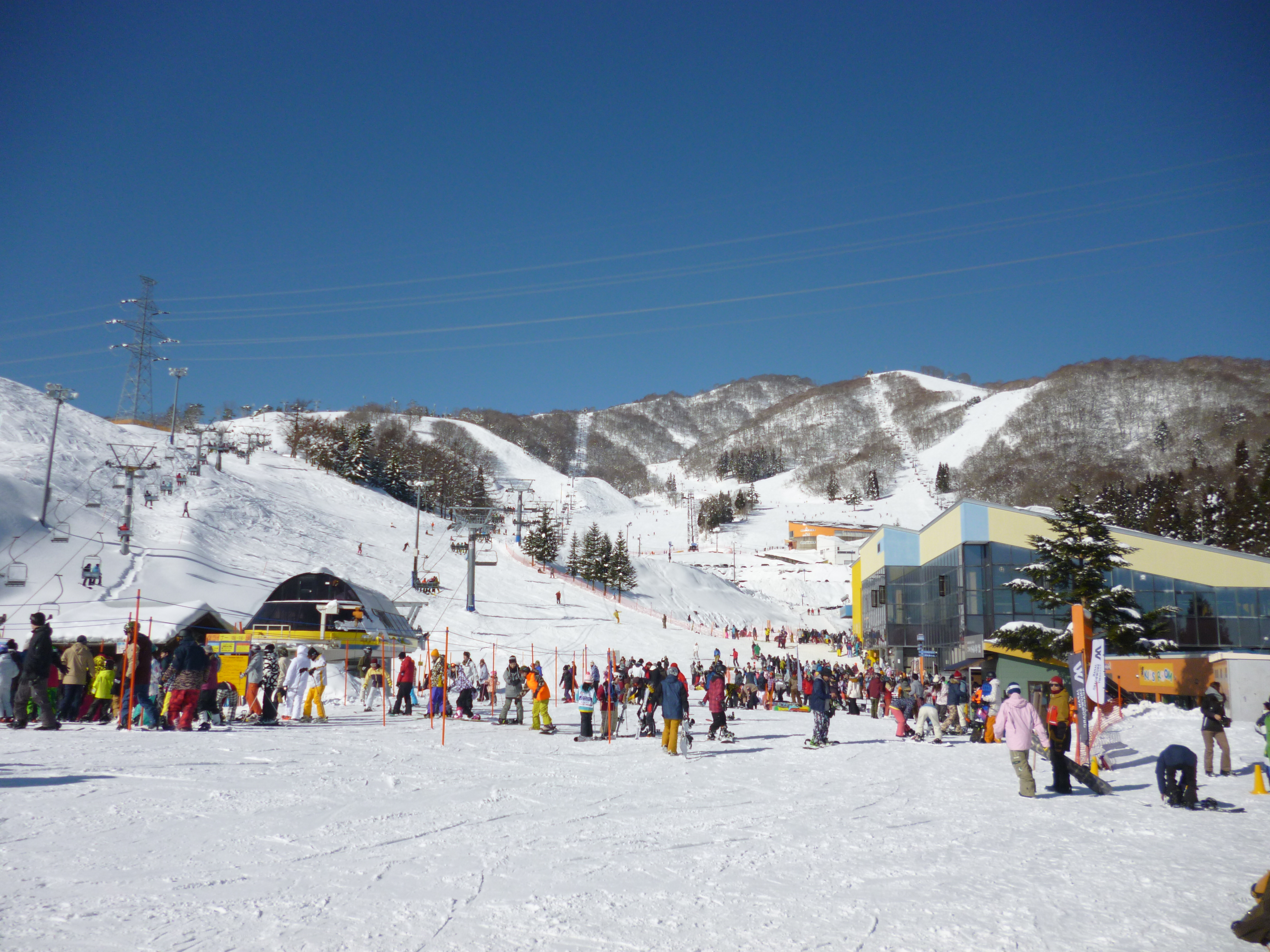 Dynaland in Gujō city, Gifu, Japan.